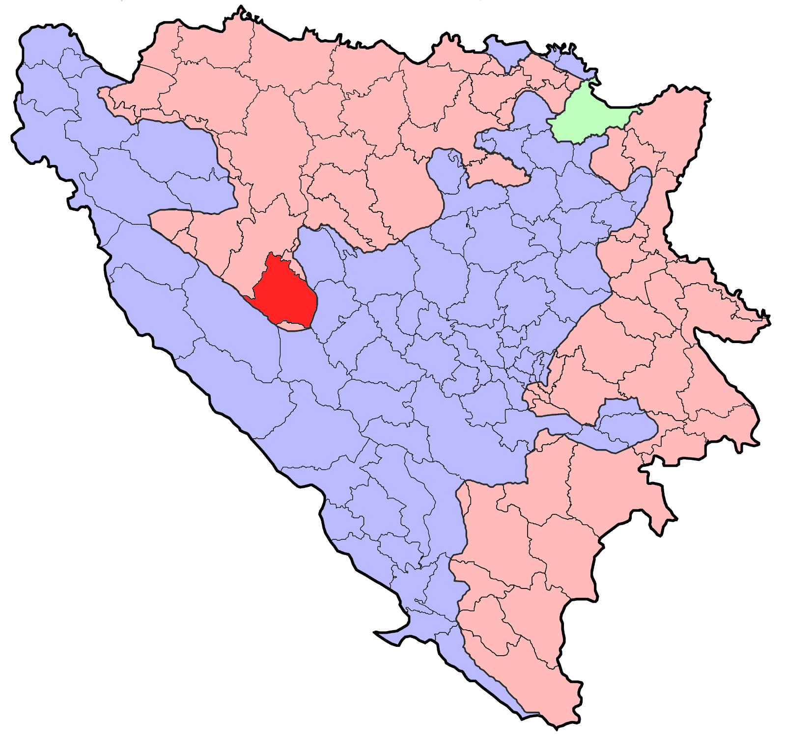 Location of Šipovo municipality in Bosnia and Herzegovina.